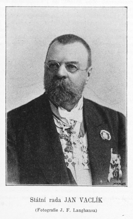 Portrait of Jan Vaclík (1830-1917), diplomat and journalist of Czech origin active mainly in Montenegro and Russia